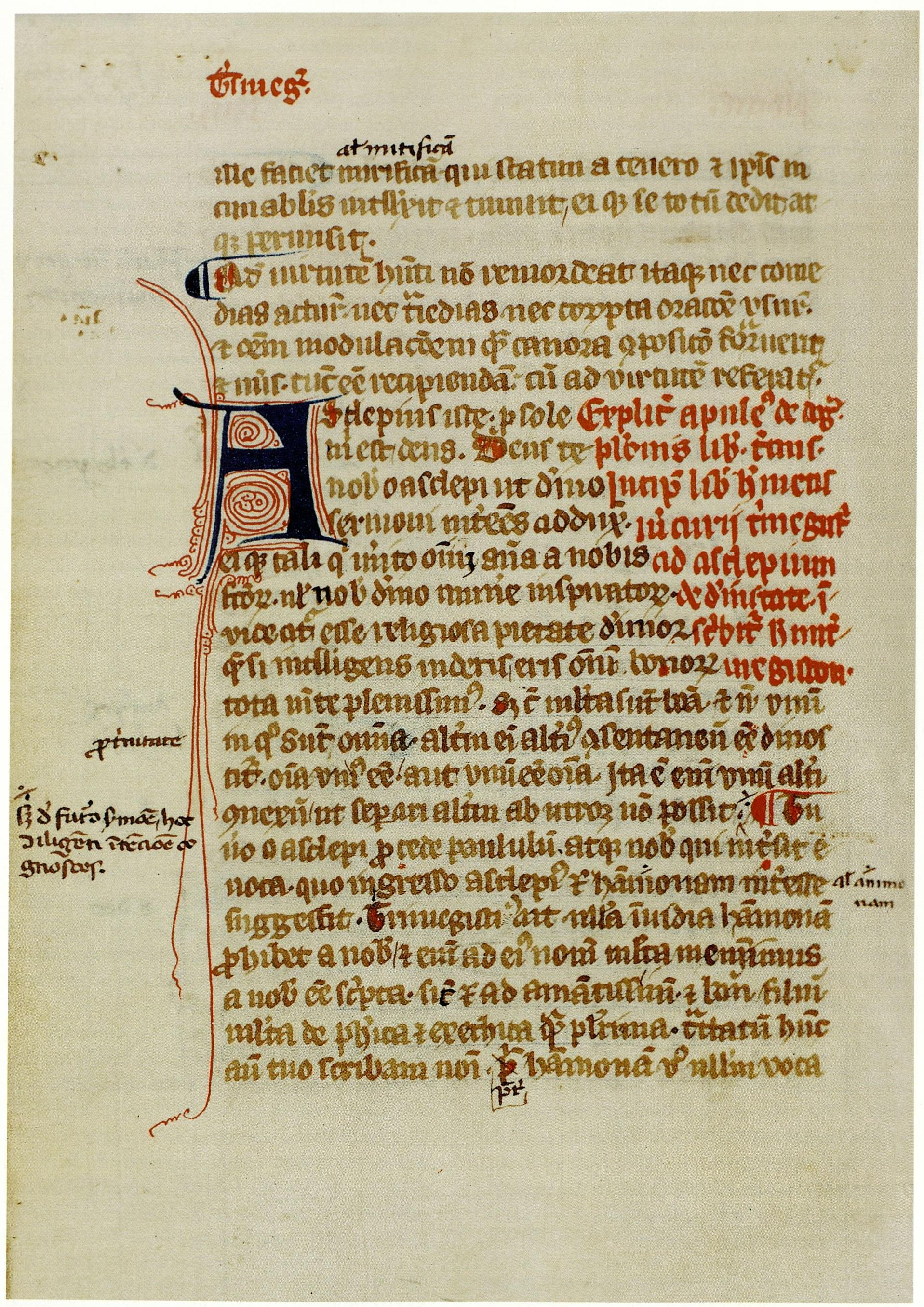 The beginning of the Hermetic dialogue Asclepius in the French manuscript Venice, Biblioteca Nazionale Marciana, Lat. VI, 81 (= 3036), fol. 131v.